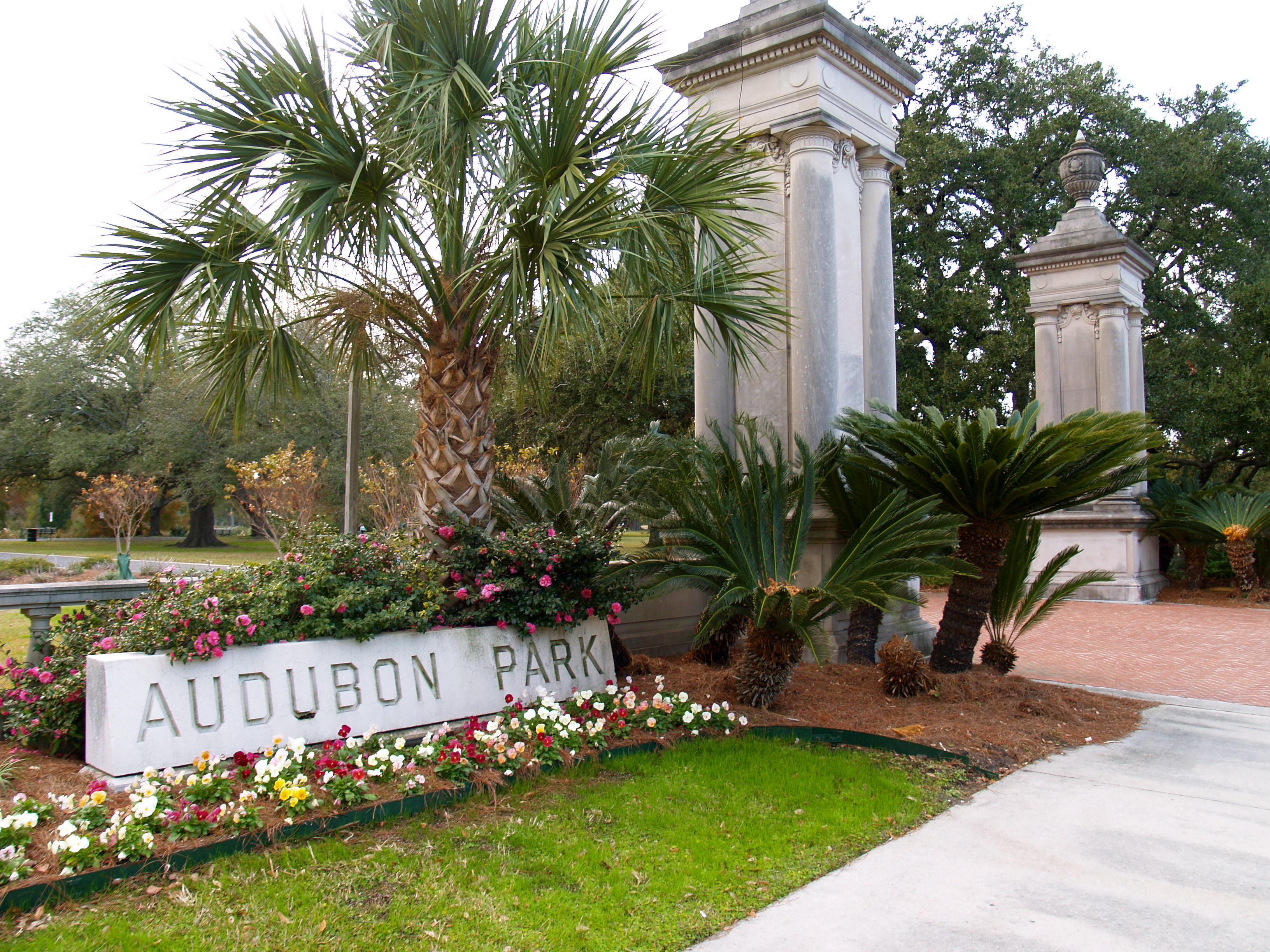 Audubon Park, New Orleans in December 2006. New Orleans, Louisiana. Photo by Chad Carson